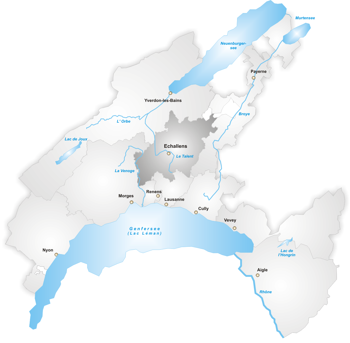 District Gros-de-Vaud from 2008